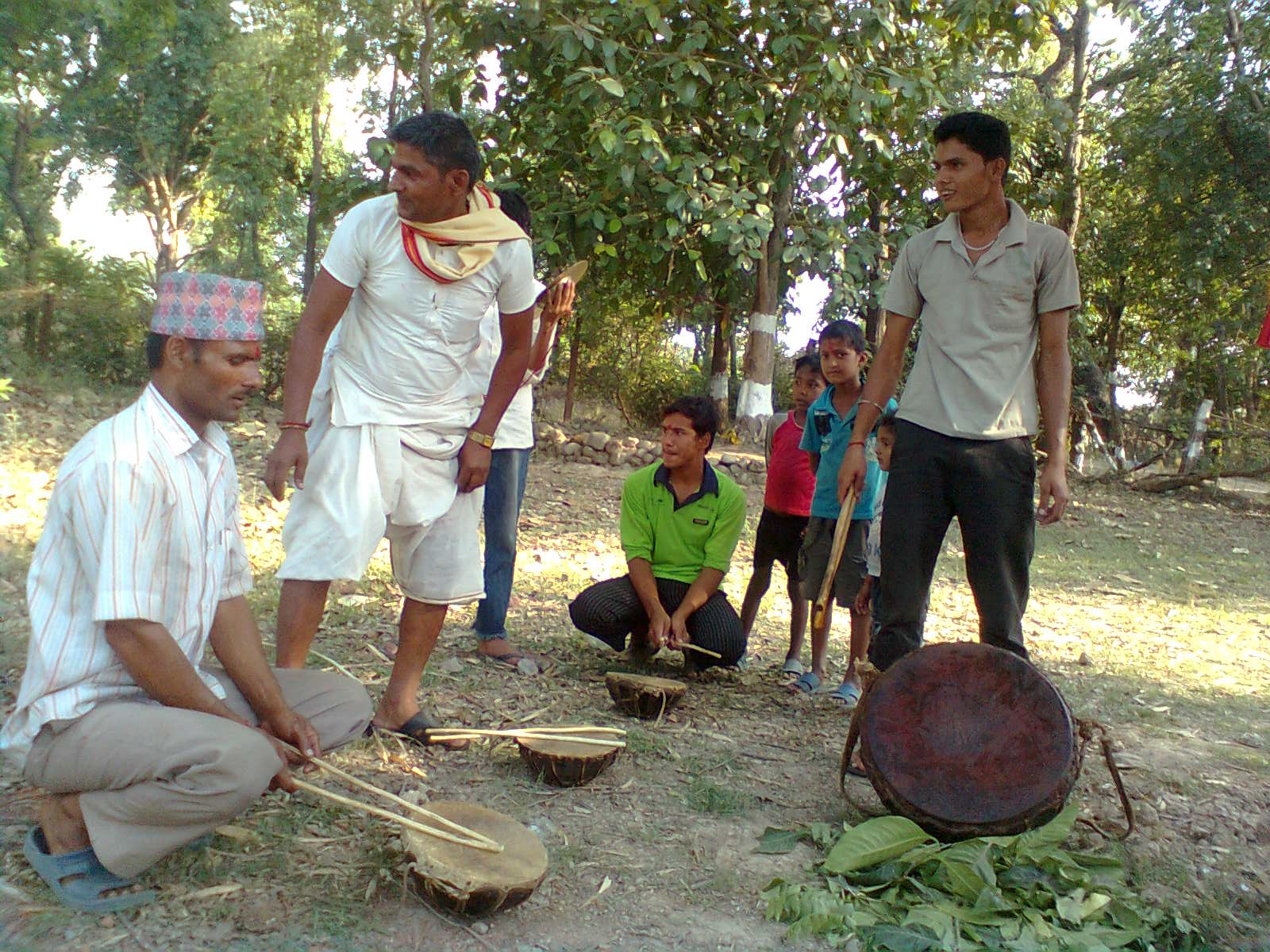 Playing Damaha at Attariya- 1, Kailali.